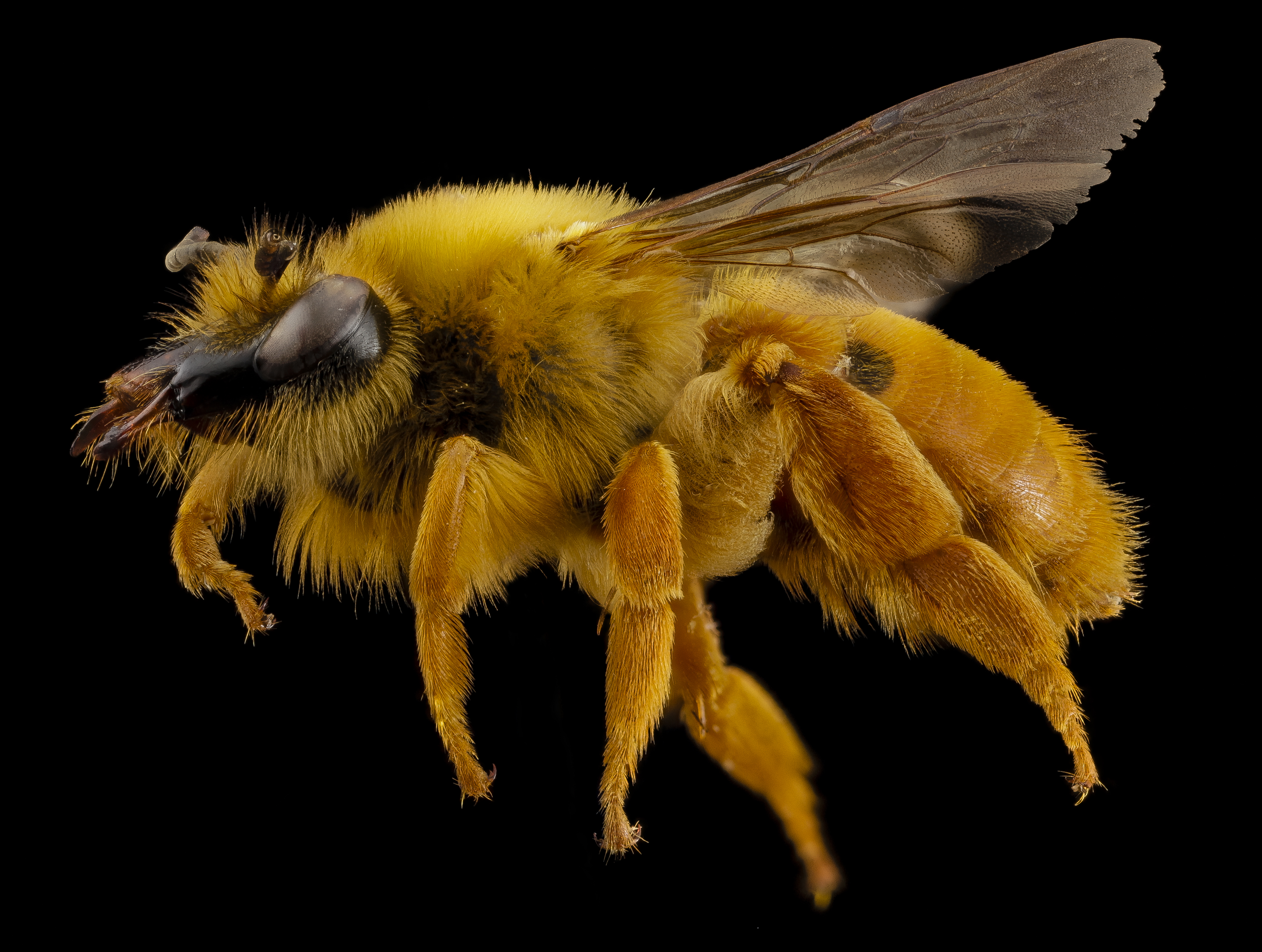 Diphaglossa gayi, family Colletidae. A large to huge, long-faced bee from Chile. The only member of its genus and strongly associated with the residual and now relictual beech forests of this country. Photography Information: Canon Mark II 5D, Zerene Stacker, Stackshot Sled, 65mm Canon MP-E 1-5X macro lens, Twin Macro Flash in Styrofoam Cooler, F5.0, ISO 100, Shutter Speed 200 This image is in the public domain in the United States because it only contains materials that originally came from the United States Geological Survey, an agency of the United States Department of the Interior. For more information, see the official USGS copyright policy.